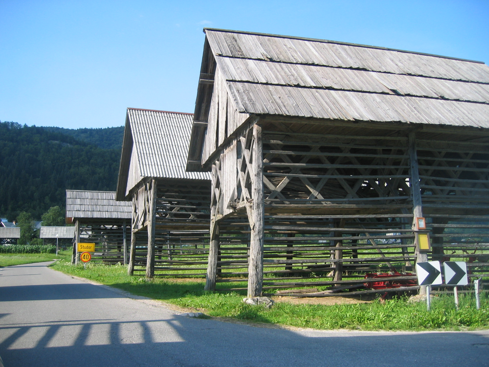 Hay-rack houses in Studor, near Bohinj, Slovenia